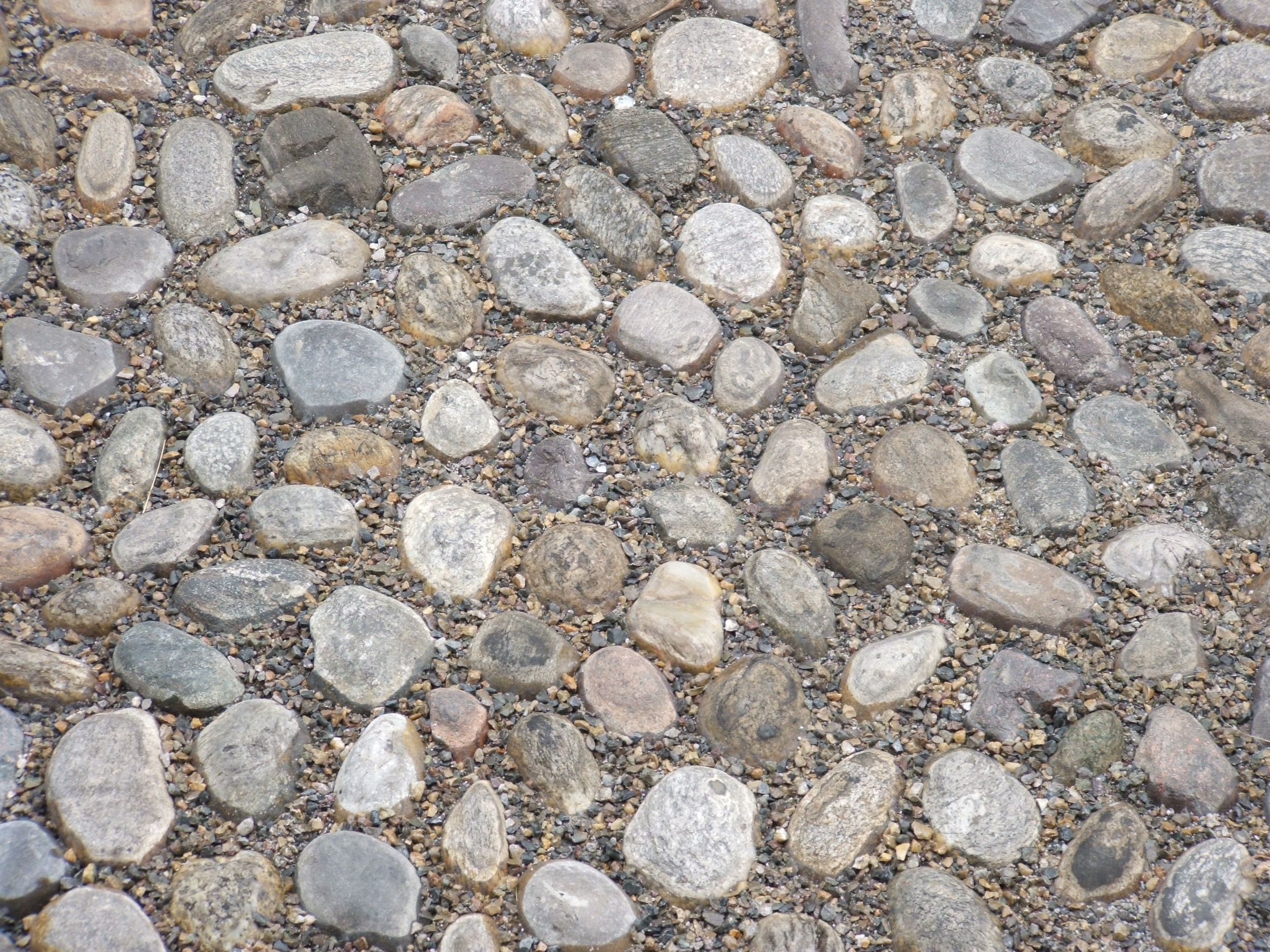 Stone pavement